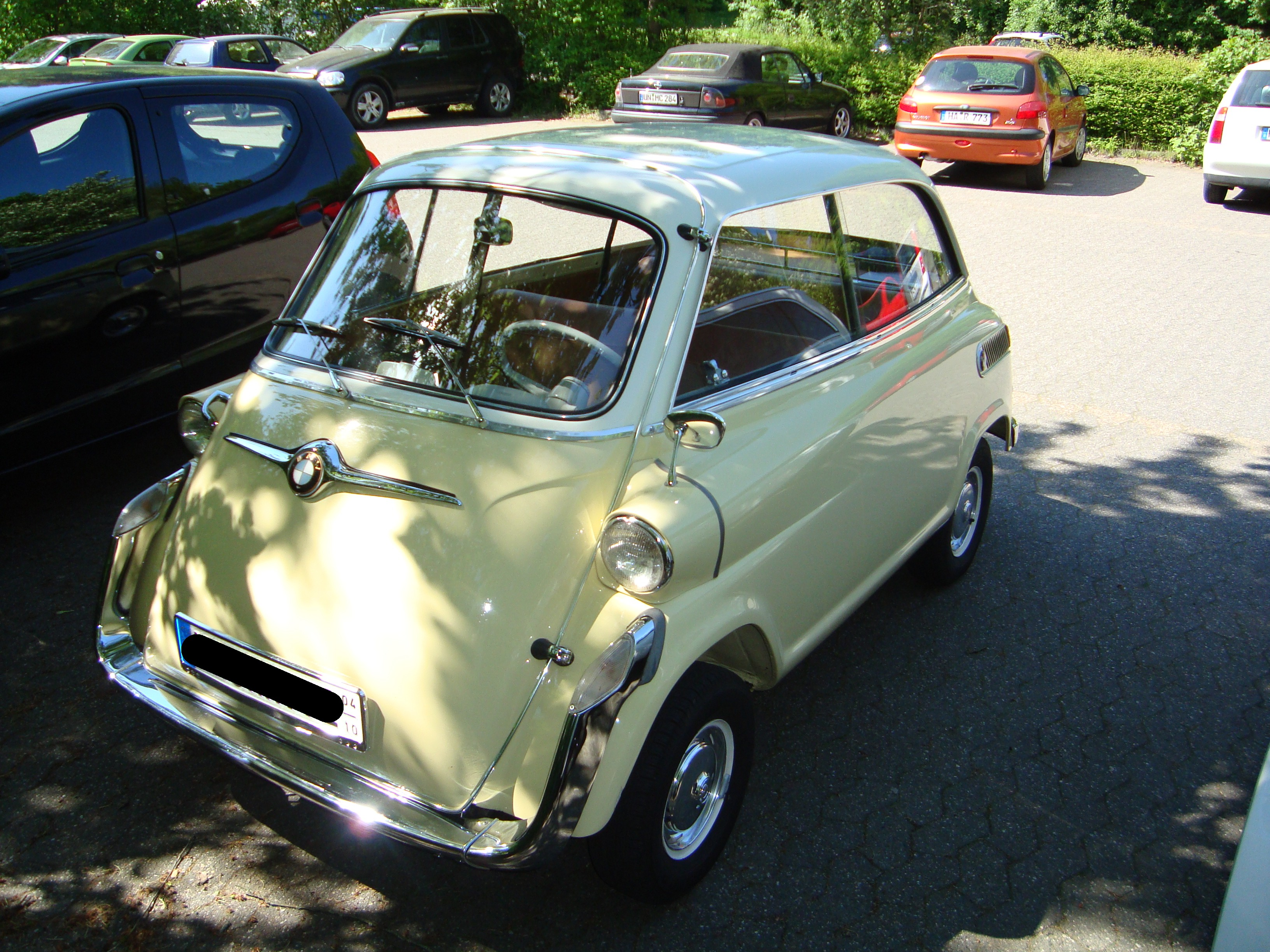 Sidewise view of a BMW 600